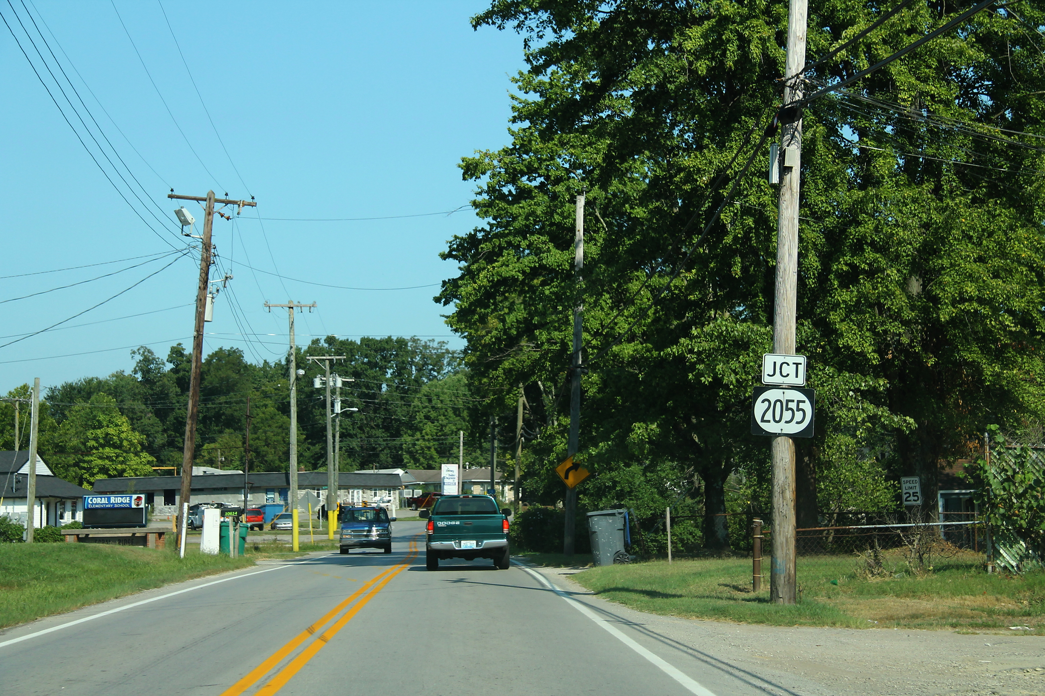 Kentucky Route 1020 approaching Kentucky Route 2055.